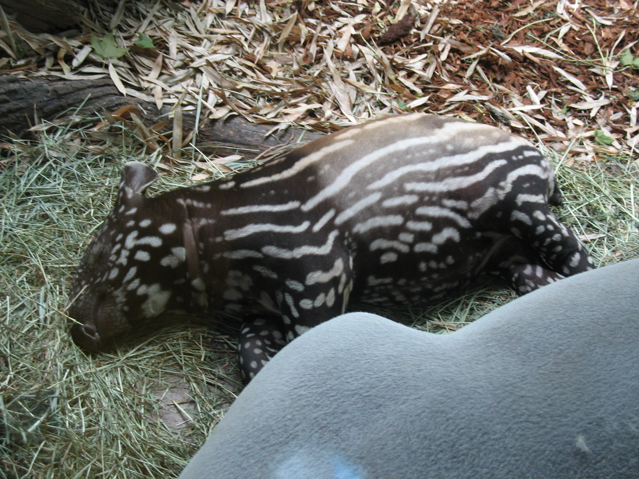 Baby Malayan Tapir, one month old, at the Woodland Park Zoo in Seattle, Washington. For now, the zookeepers are calling her Princess. She was sleeping next to her mother, Kelang.